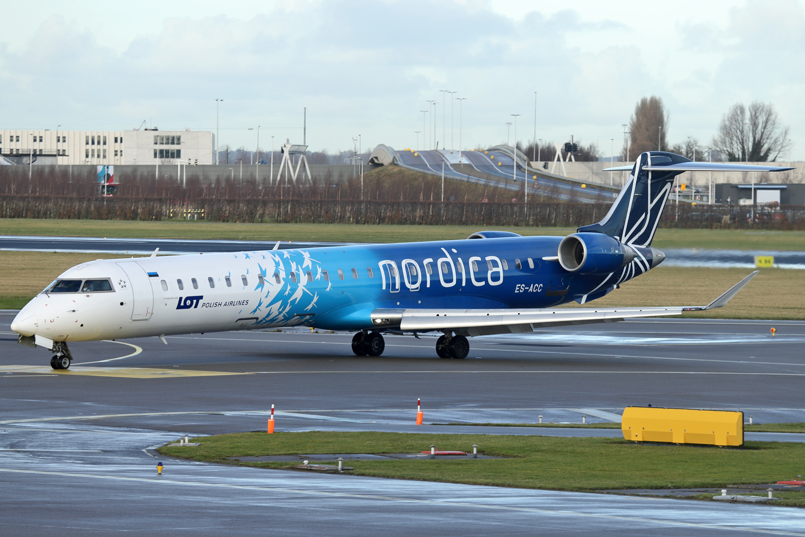 ES-ACC, Canadair CRJ-900, (15262) Nordica - LOT Polish Airlines, Amsterdam (AMS), 21/01/2018